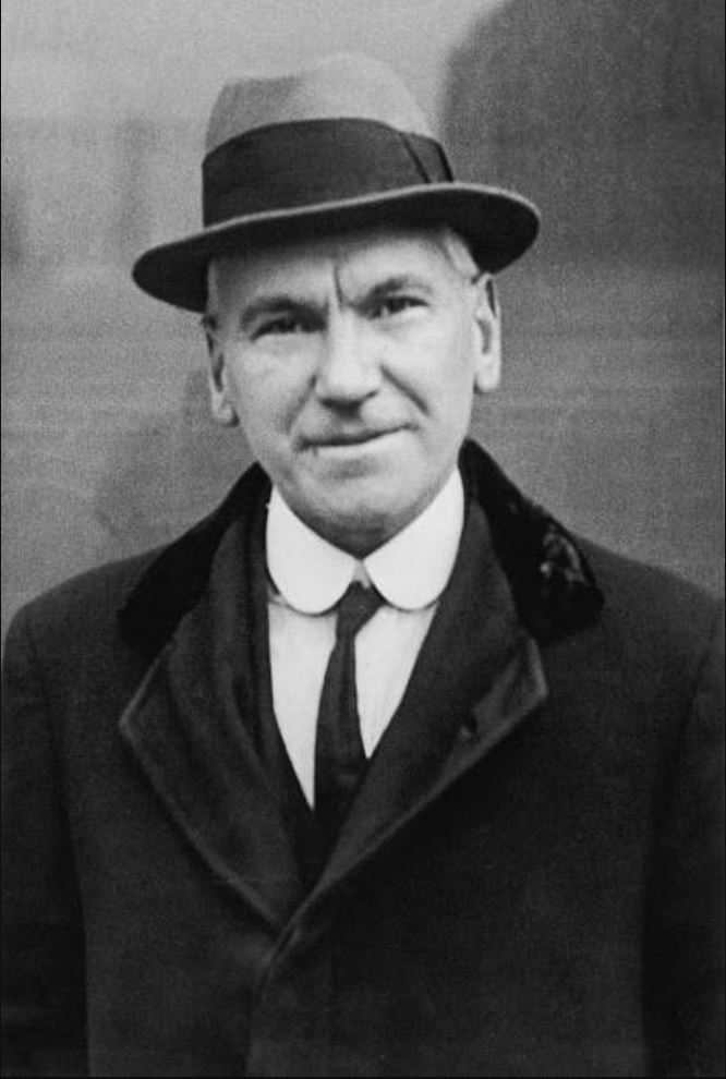 Photograph of Scottish Socialist John Maclean in December of 1918